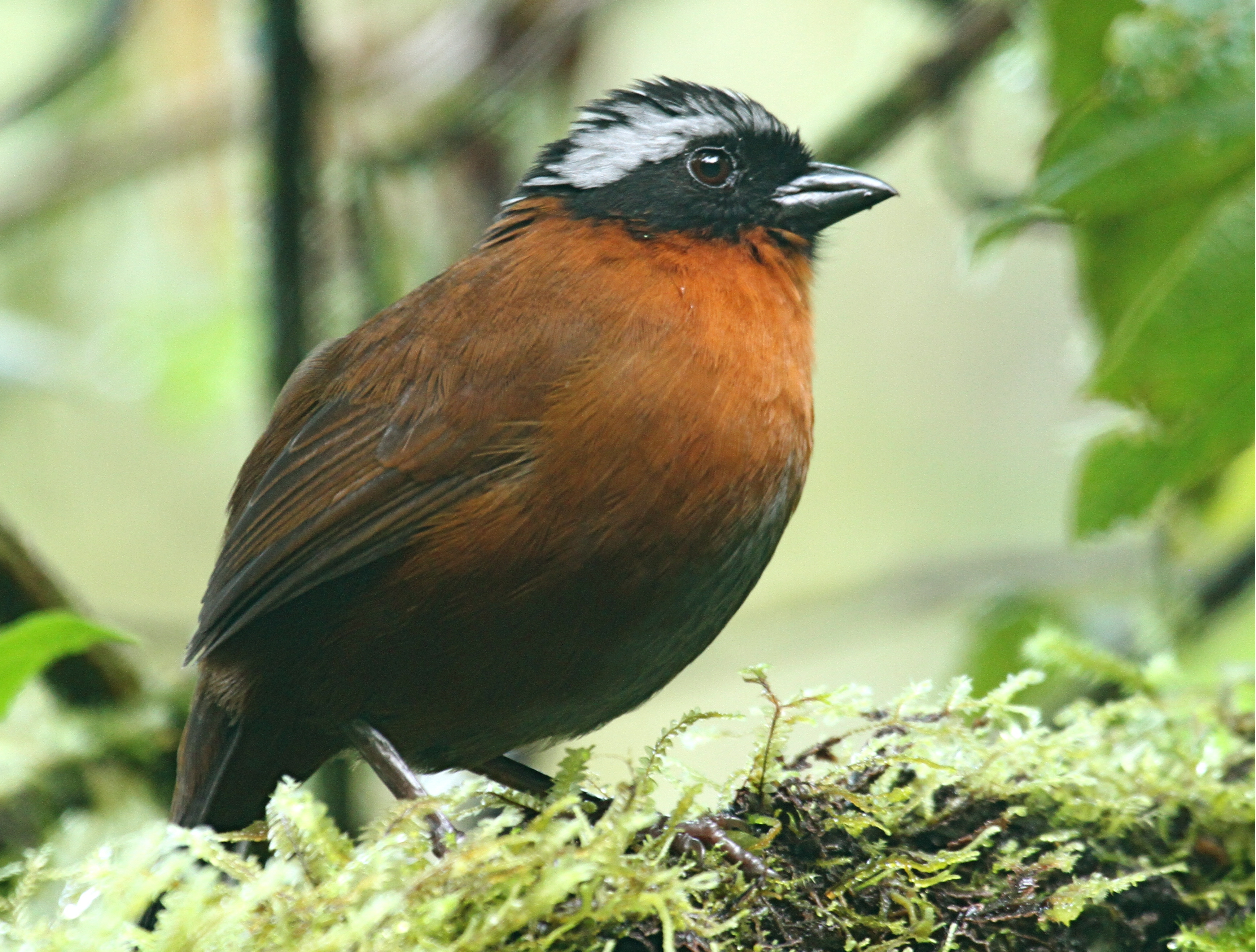 Bellavista Lodge - Ecuador